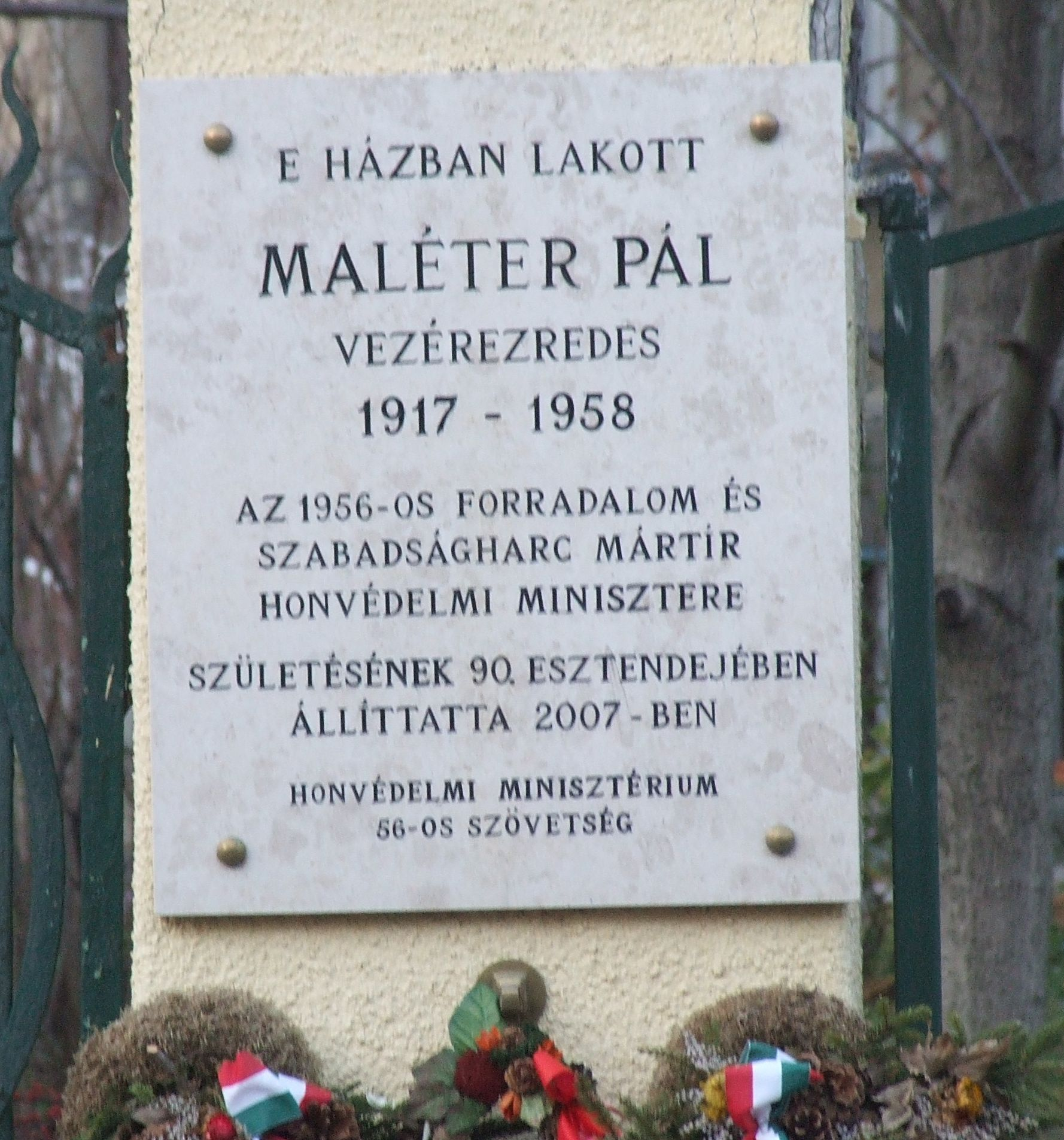 Commemorative plaque of Pál Maléter, Budapest District XII, Orbánhegyi Street No 29